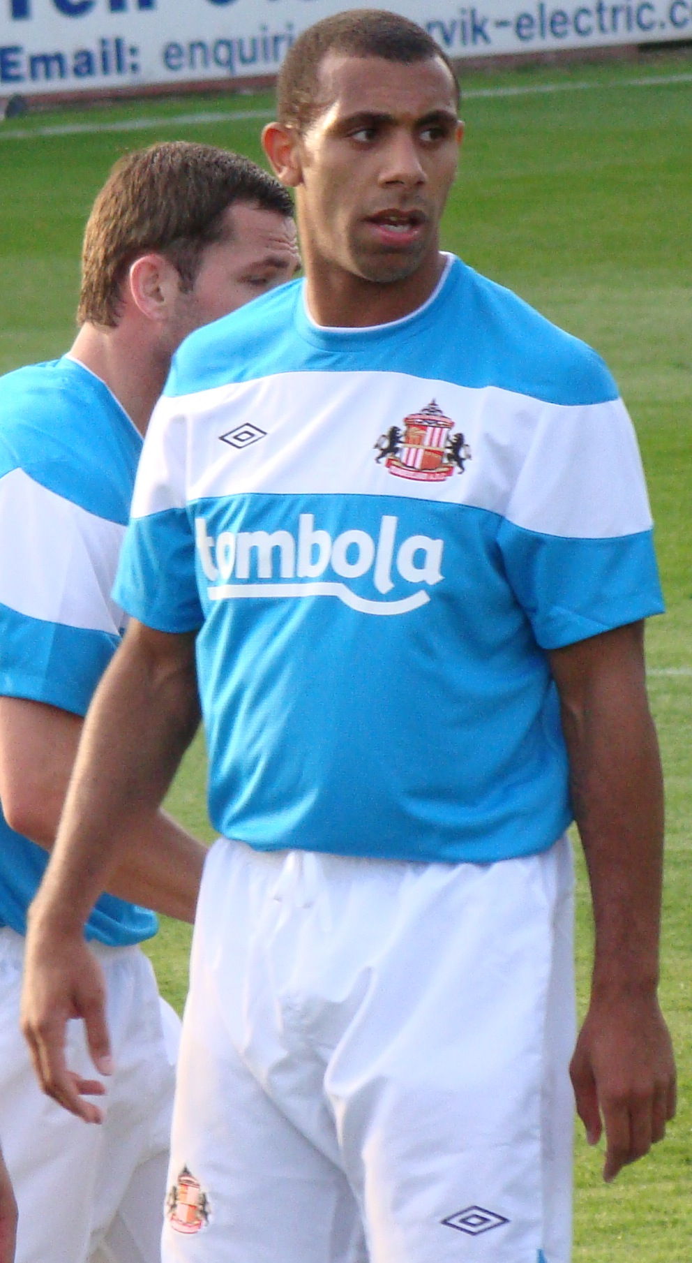 Anton Ferdinand